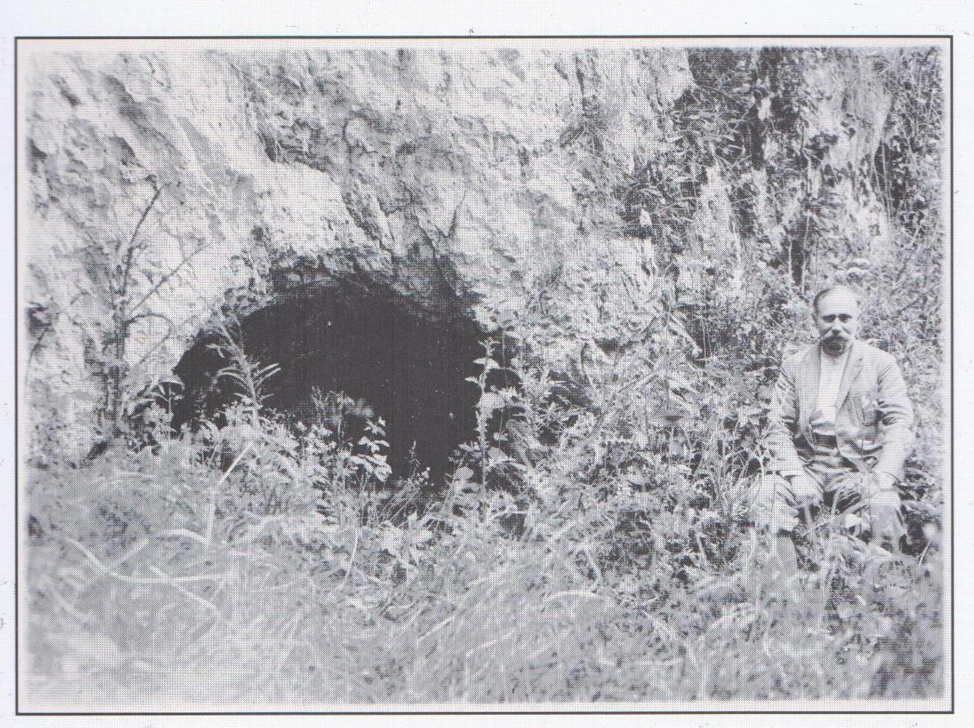 Entrane of the Lök-völgy Cave (Bükk Mountains) and Ottokár Kadić.